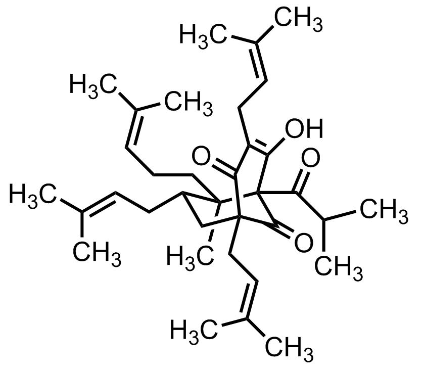 A model of Hyperforin drawn in 3D perspective. Absolute Steriochemistry assigned from Phytochemistry 67 (2006) 2201–2207[1]